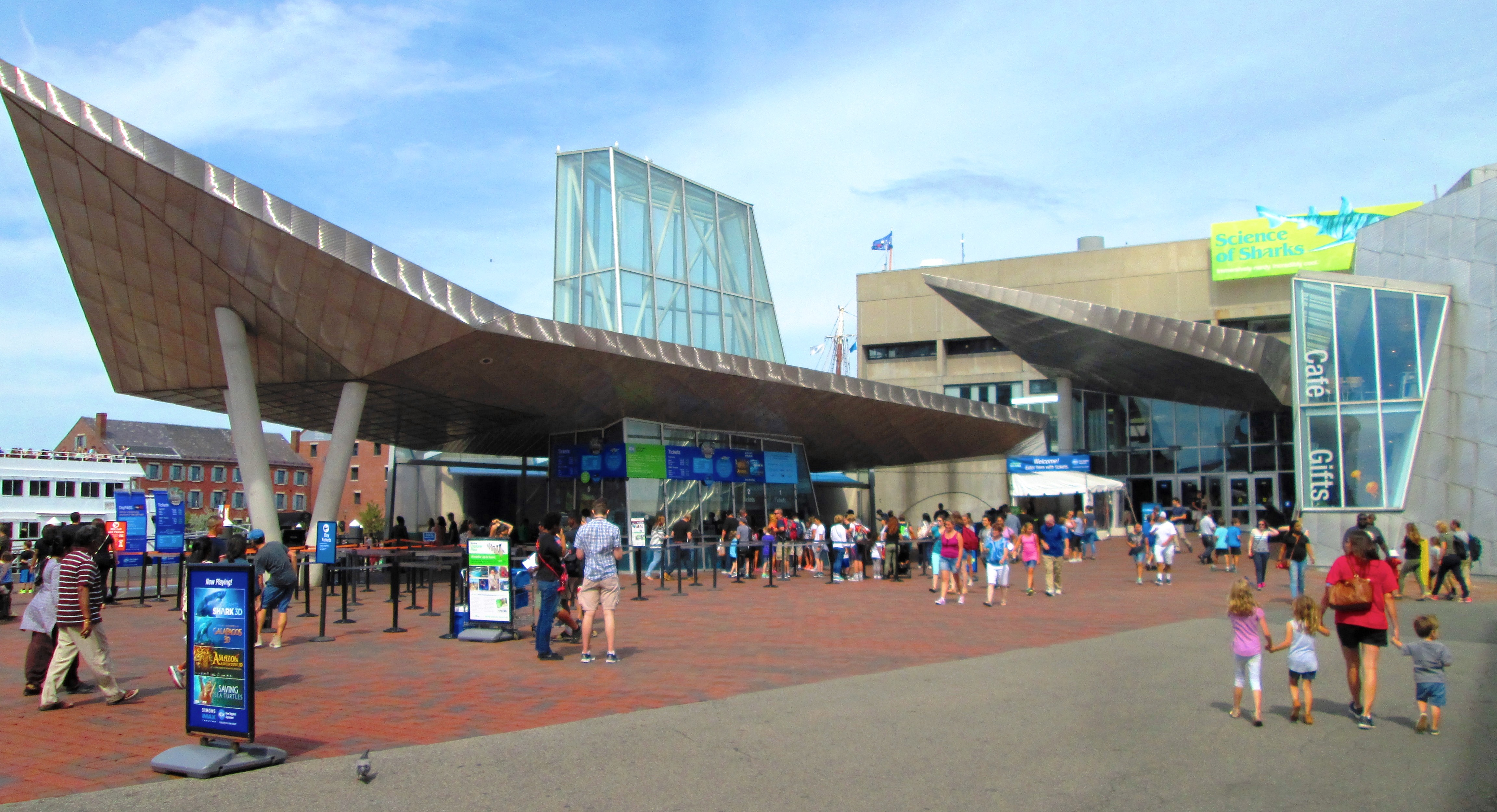 The New England Aquarium is located on the Central Wharf in Boston, Massachusetts, which includes the Matthew and Marcia Simons IMAX Theatre. The main building was designed by Peter Chermayeff of Cambridge Seven Associates, and opened to the public in 1969. The Giant Ocean Tank opened in 1970, and at the time was the largest circular ocean tank in the world; it was renovated in 2013. A west wing designed by Schwartz/Silver Architects was completed in 1998. The IMAX theatre opened in 2001 in a building designed by E. Verner Johnson and Associates.